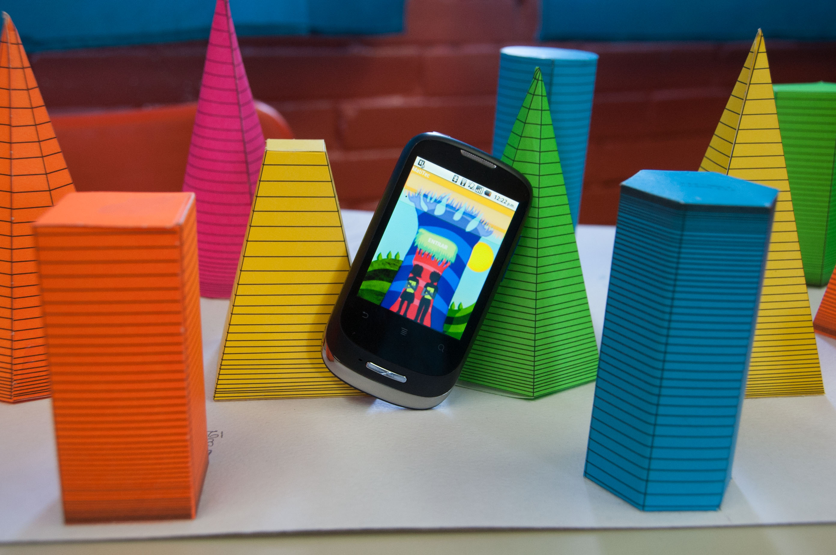 Mati-Tec phone next to geometry figures.